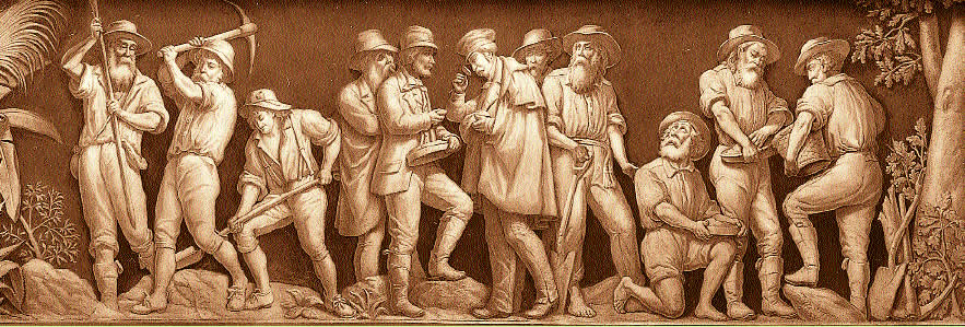 "Discovery of Gold in California" - The discovery of gold at Sutter's Mill set off the California gold rush of 1849. In this scene prospectors dig for gold with picks and shovels and pan for the precious metal. In the center three well-dressed men, possibly John Sutter and two friends, carefully examine the contents of a prospector's pan. This was the last scene designed by Brumidi and painted by Costaggini.